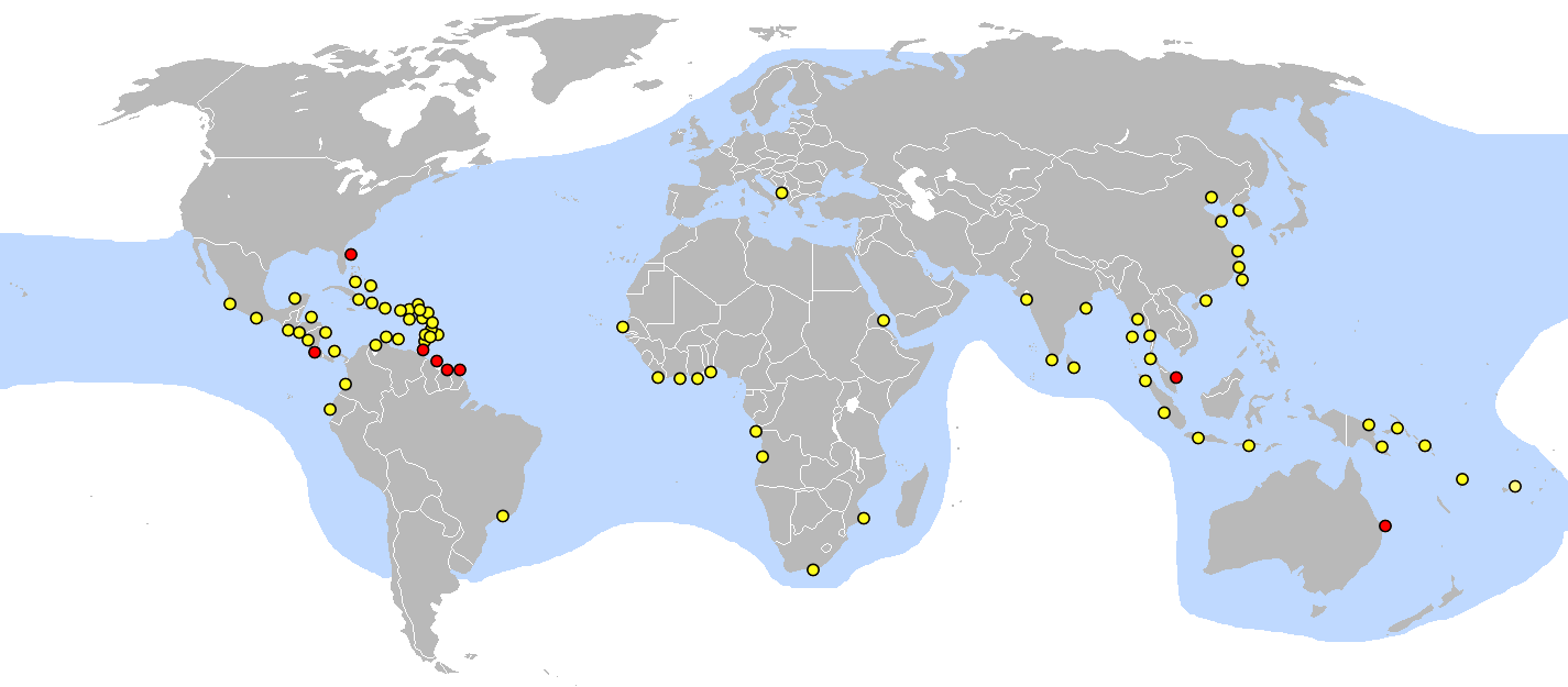 Nesting location of Leatherback sea Turtle : red dot = major nesting locations, yellow dot=minor nesting locations